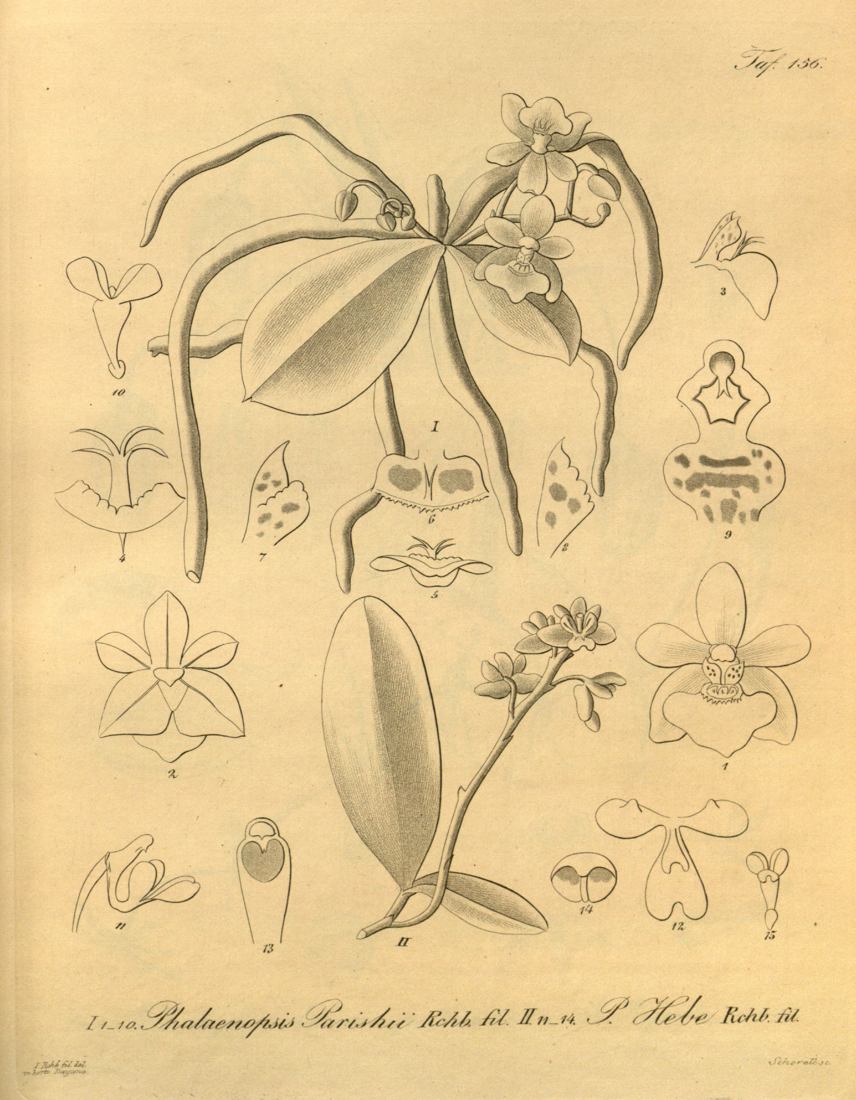 Illustration of: Phalaenopsis parishii and Phalaenopsis deliciosa (as syn. Phalaenopsis hebe)